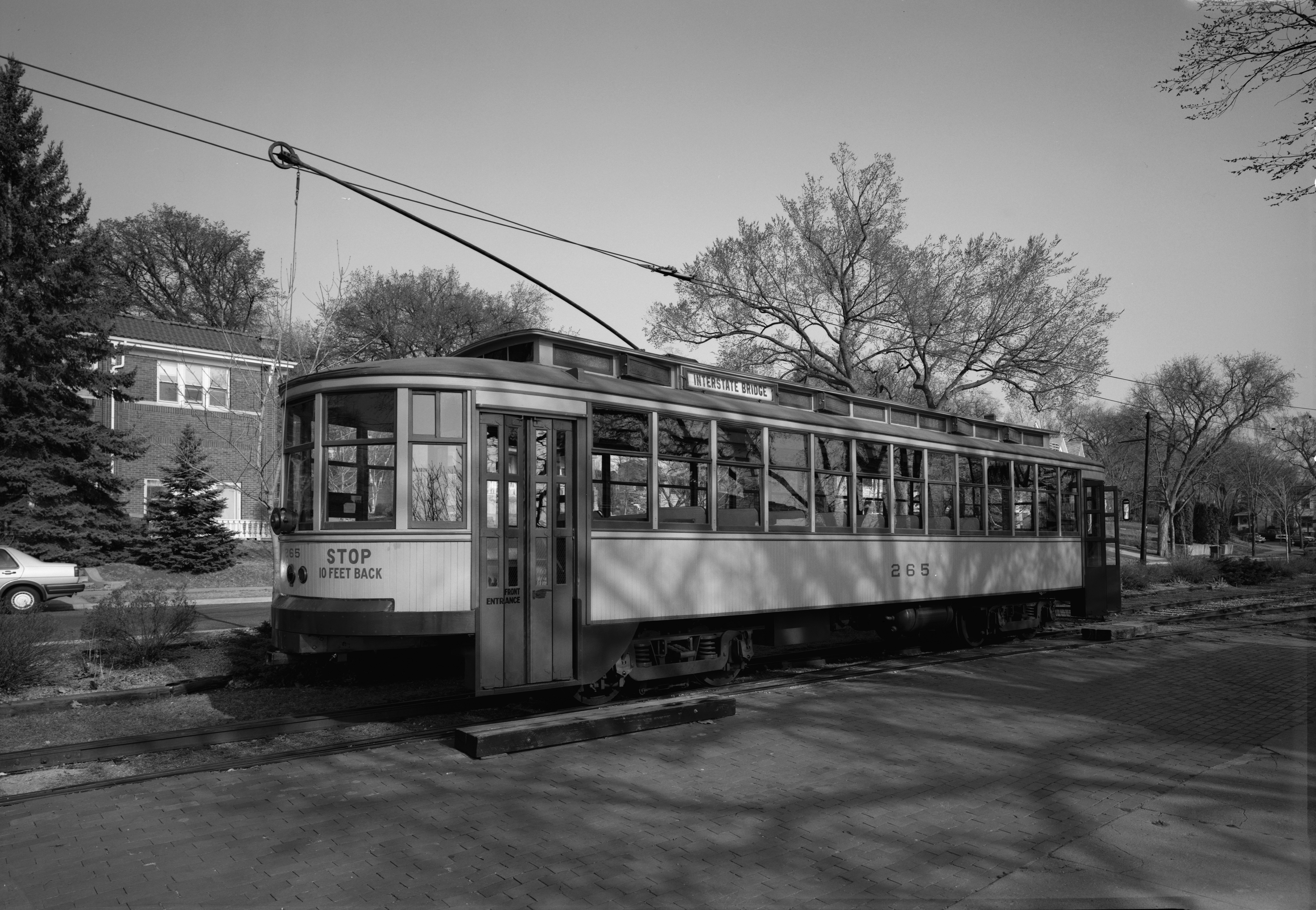 Como-Harriet Streetcar Line & Trolley Car No. 265, Forty-second Street West at Queen Avenue, Minneapolis, Hennepin County, MN.